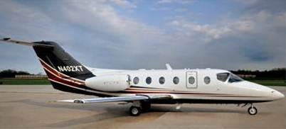 Photo is of the exterior of the Nextant 400XT.